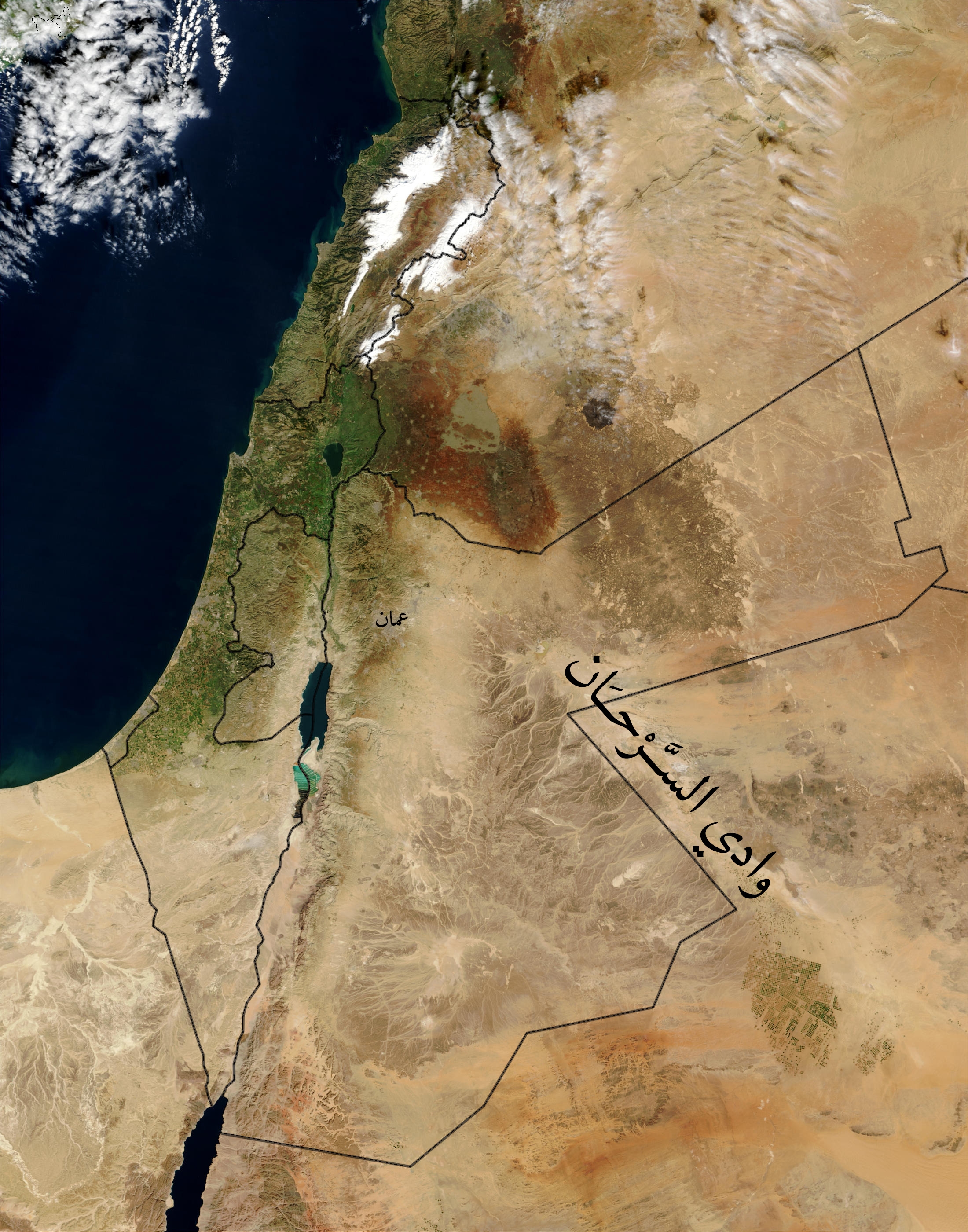 Location of Wadi Sirhan on Map موقع وادي السرحان على الخارطة